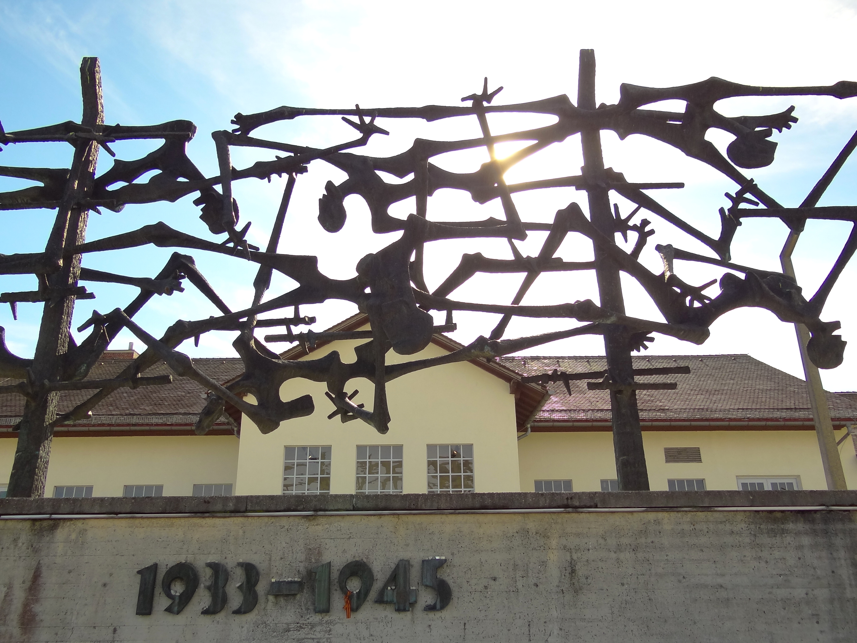 Sculpture by Nandor Glid - Dachau Concentration Camp Site - Dachau - Bavaria - Germany - 03